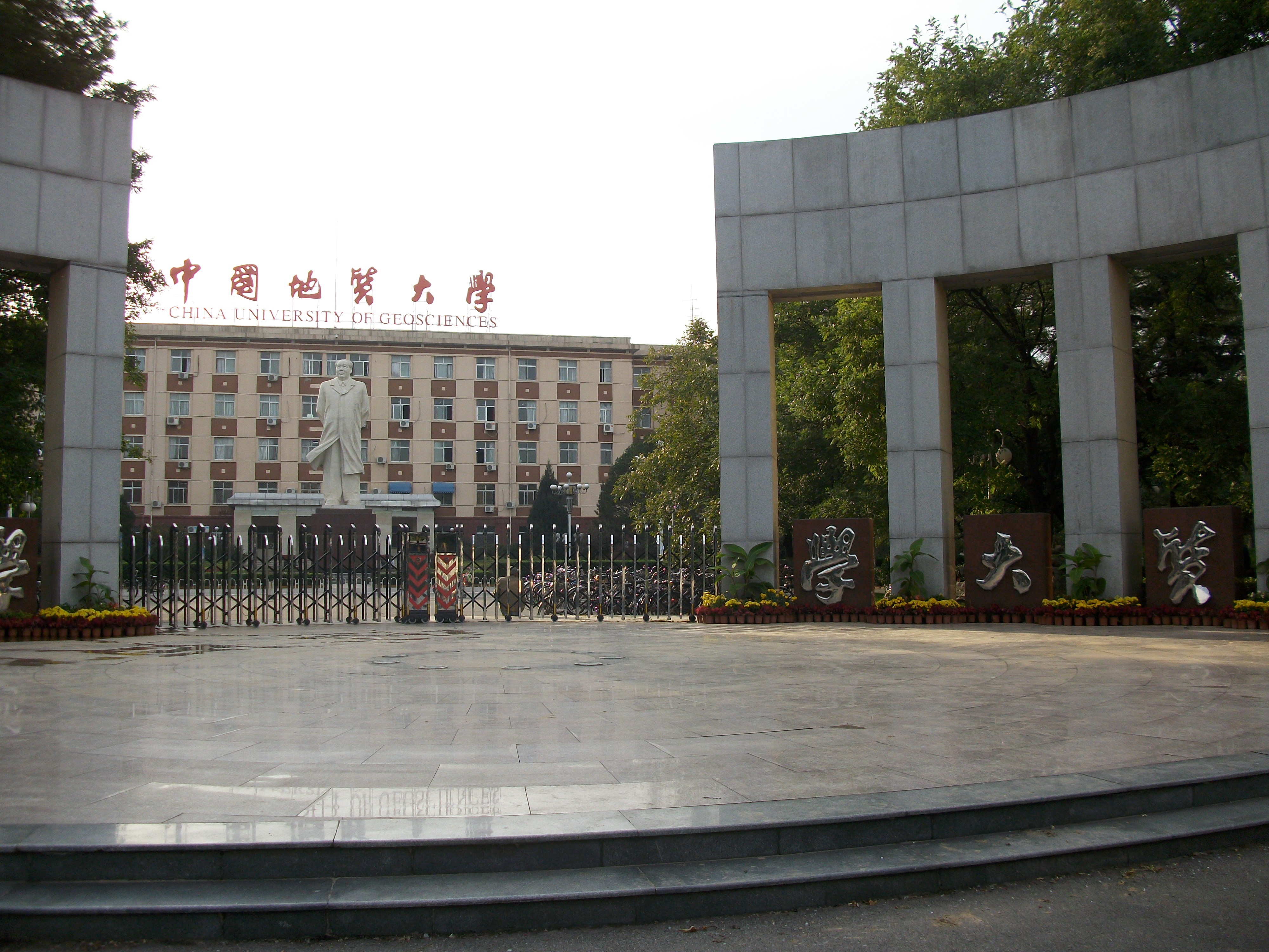 Gate of China University of Geosciences in Beijing.